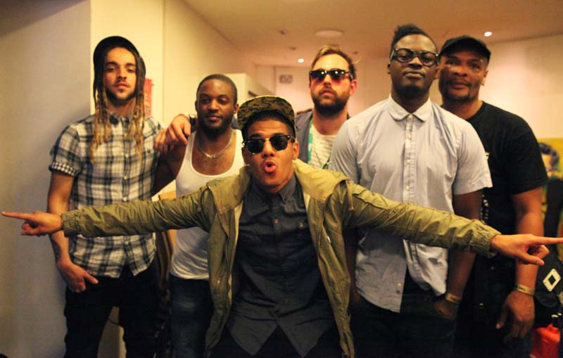 Kid British backstage